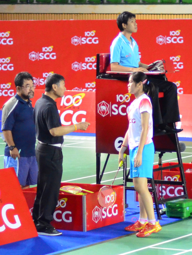 Udom & Busanan